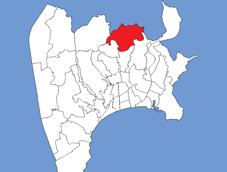 Location of the neighbourhood Gairaut in Nice